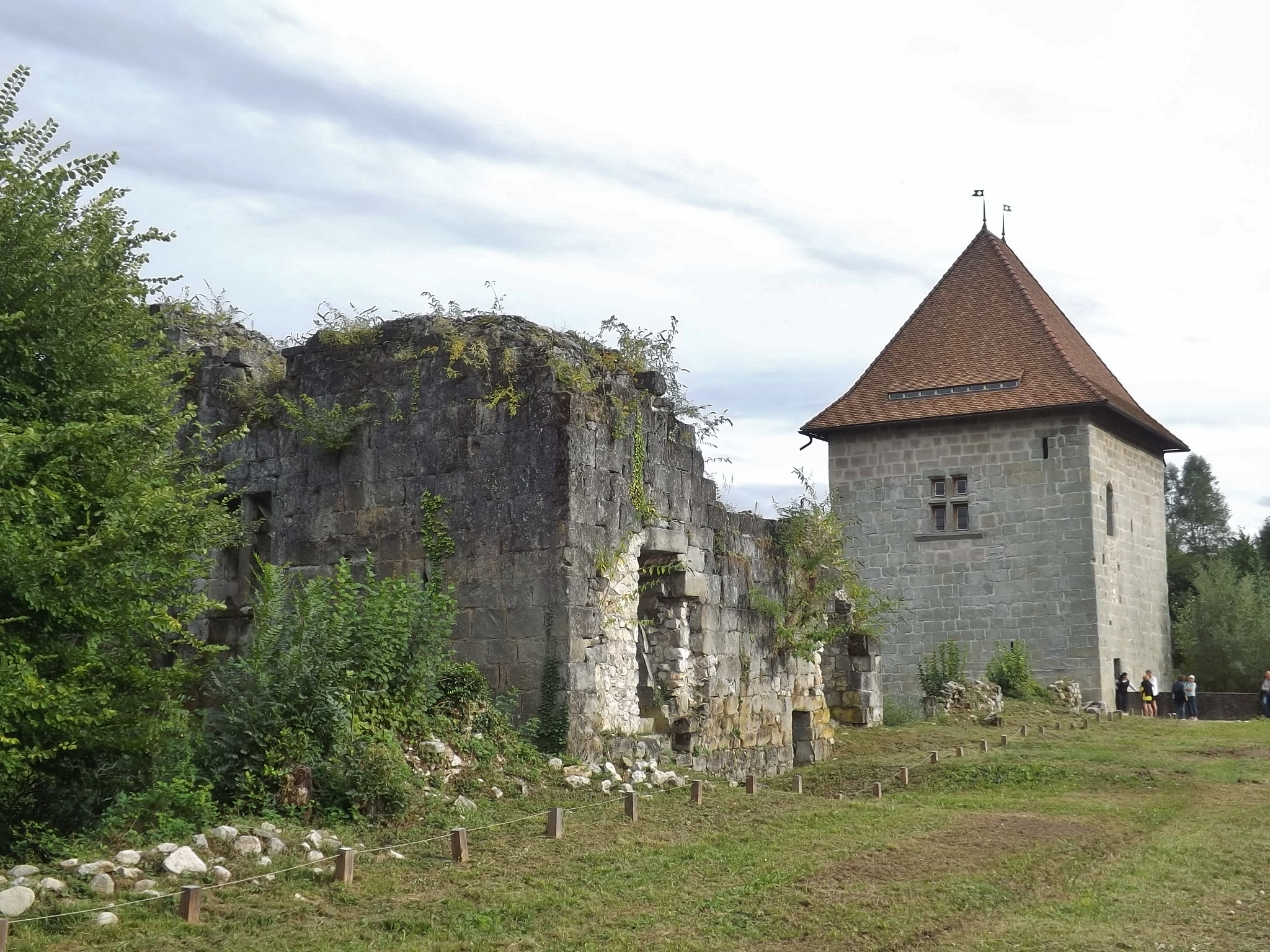 Sight of the tour des Archives and tour de la Poterne towers, in the ruins of the château de Thomas II (or château du Bourget) castle, in Le Bourget-du-Lac, Savoie, France.